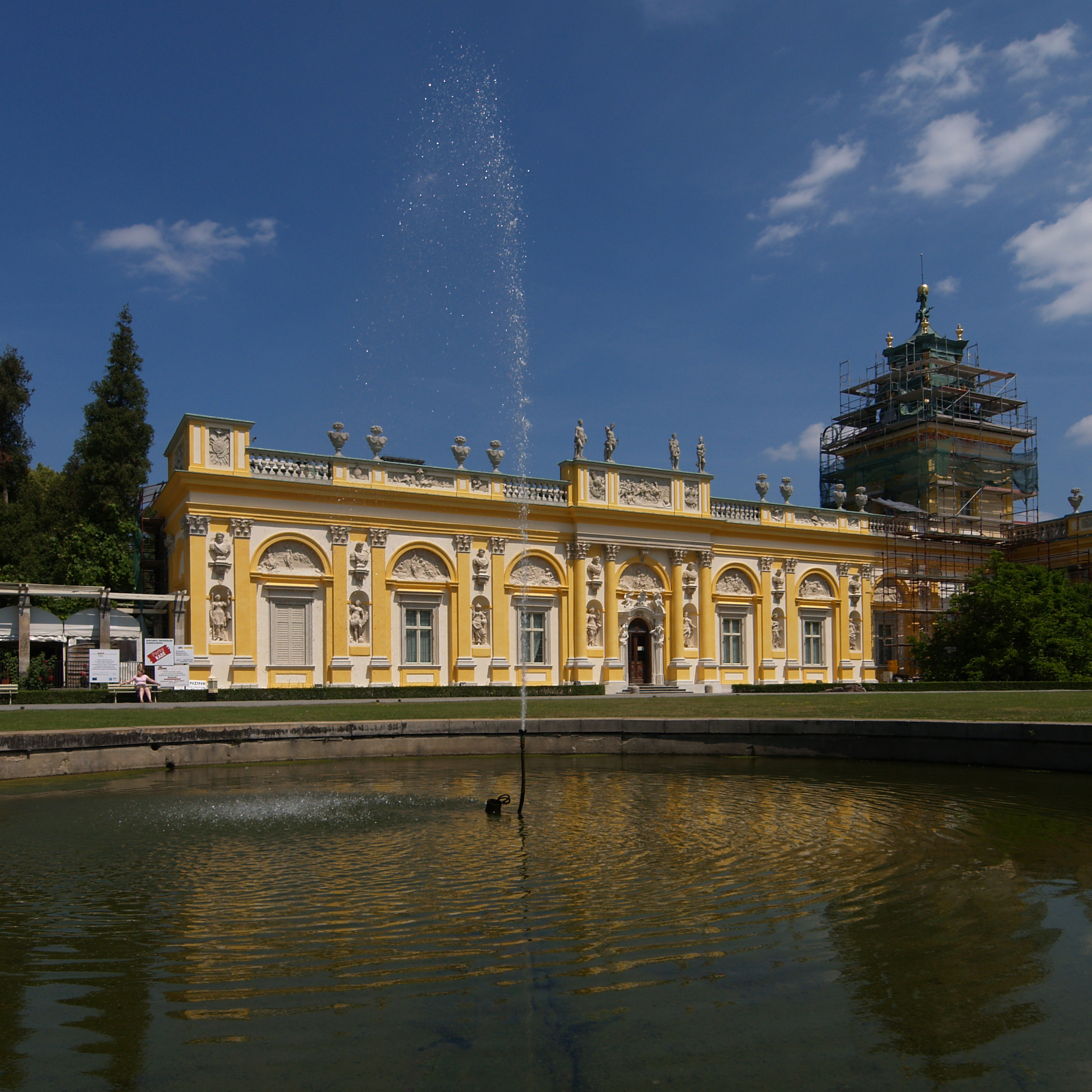 The fountain and the north wing of Wilanow Palace at Warsaw, Poland